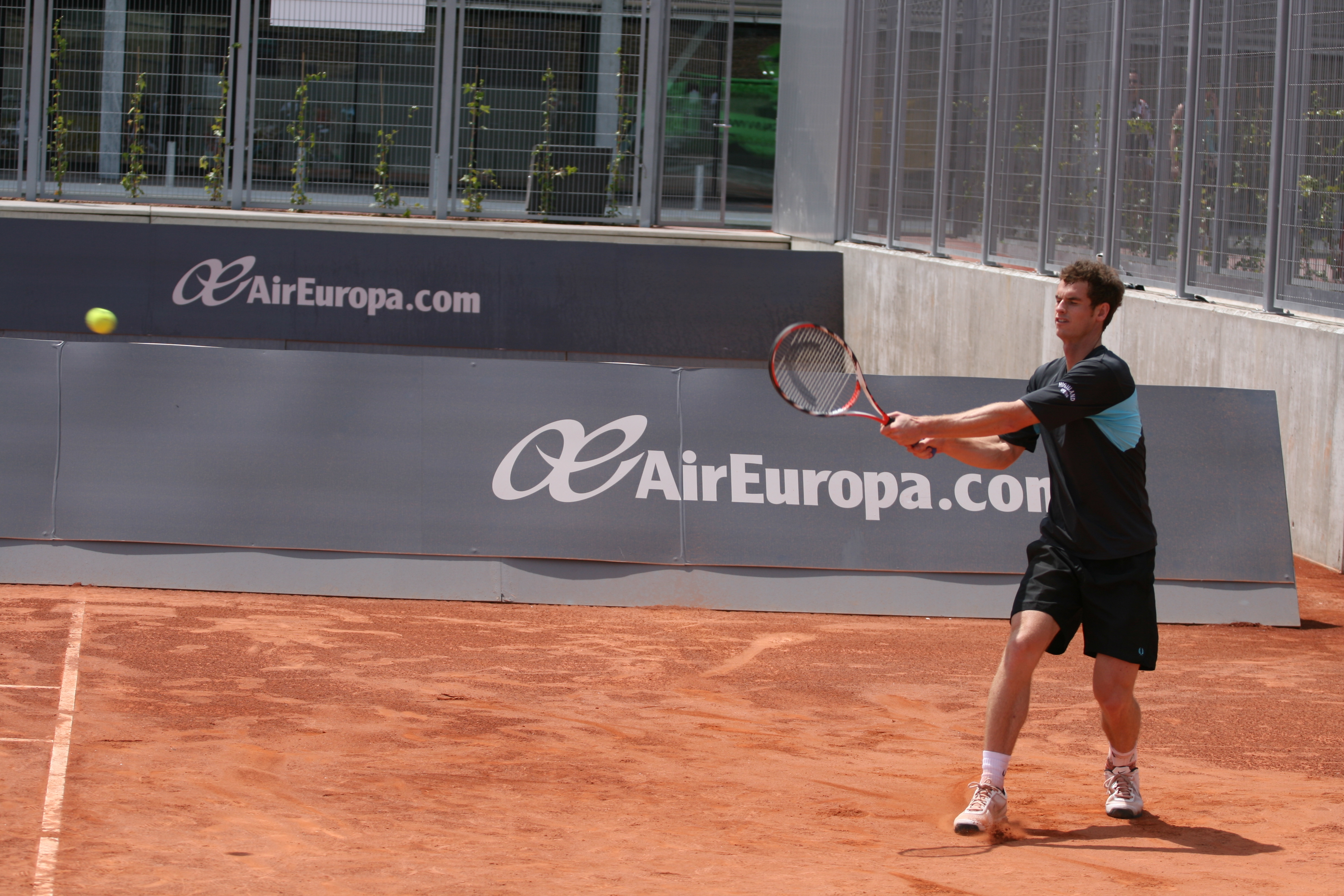 Andy Murray training with his clay court coach Àlex Corretja during the 2009 Mutua Madrileña Madrid Open